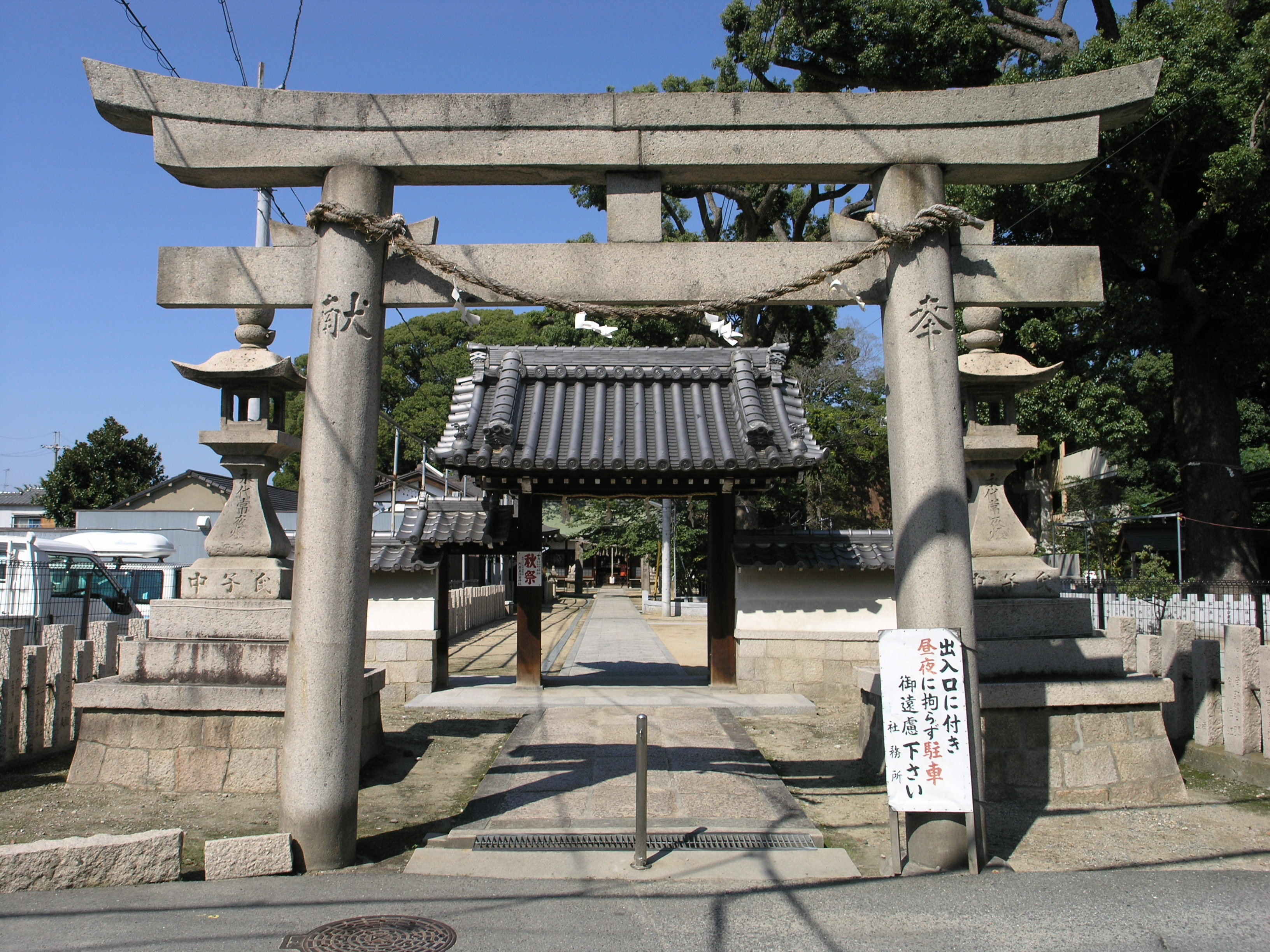 Amamikoso Jinja (Shrine) in Higashisumiyoshi, Osaka